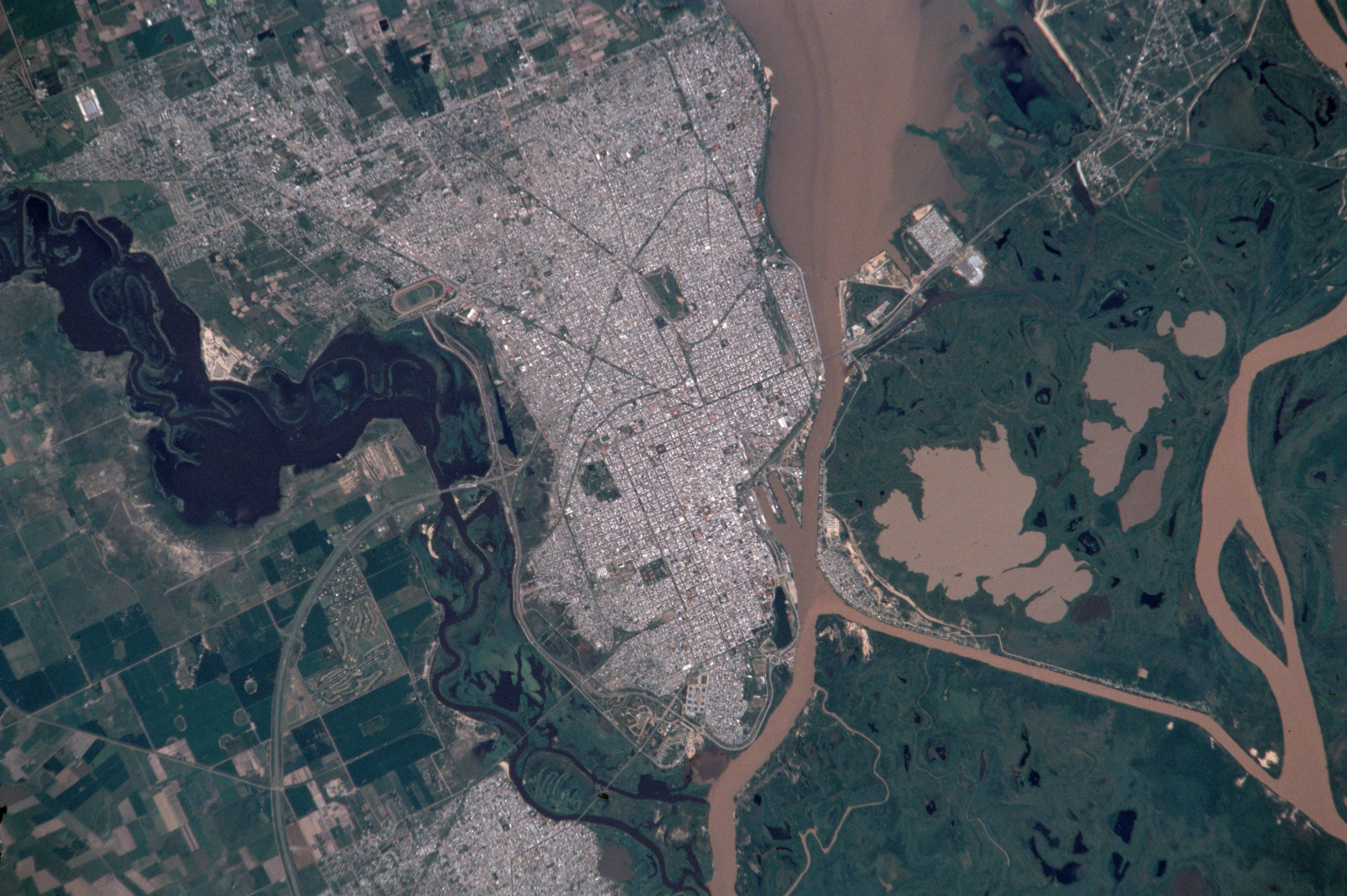 Santa Fe, Argentina seen from the ISS Image Science and Analysis Laboratory, NASA-Johnson Space Center. 2 Nov. 2004. "Astronaut Photography of Earth - Quick View." (7 Sep. 2006). Send questions or comments to the NASA Responsible Official at Curator: Earth Sciences Web Team Notices: Web Accessibility and Policy Notices, NASA Web Privacy Policy Last Update: 2 Nov. 2004